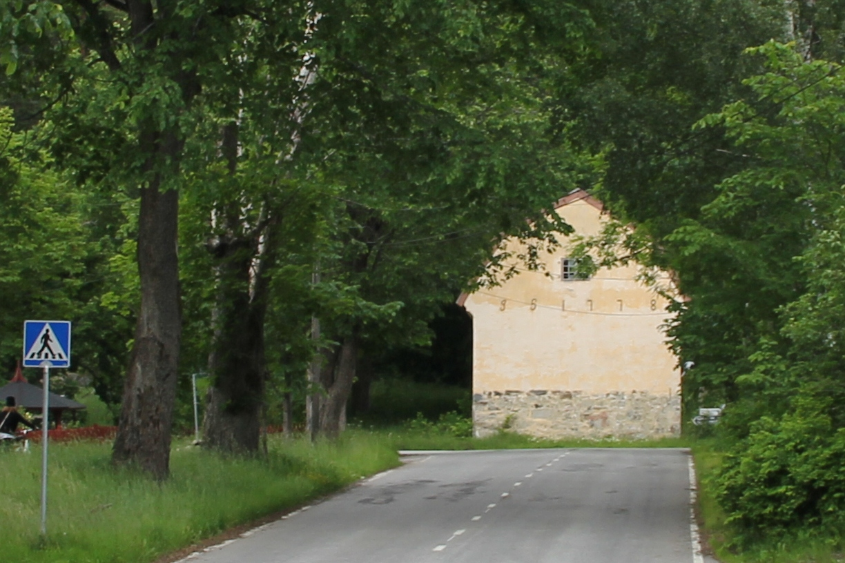 Granary in Billnäs, Pojo, Raseborg, Finland dates back to 1778. Initials G S on the wall.